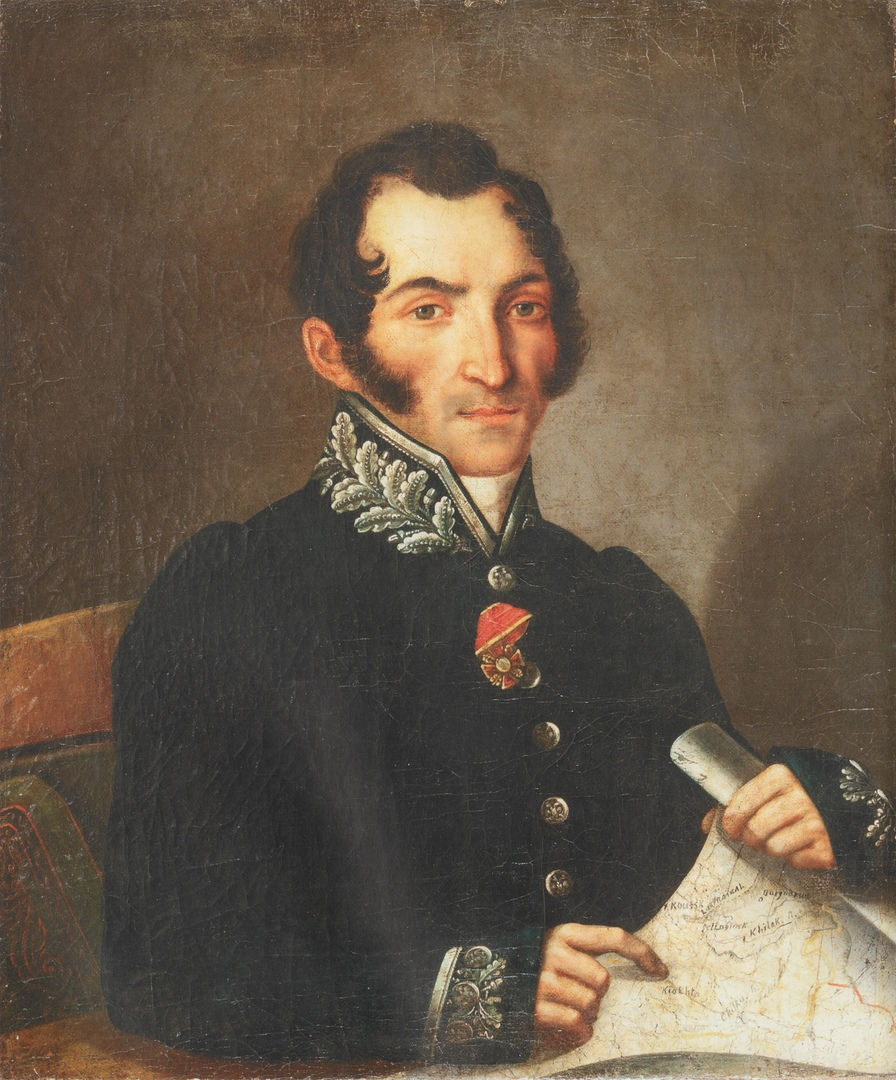 Kovalevskiy Osip Mikhailovich